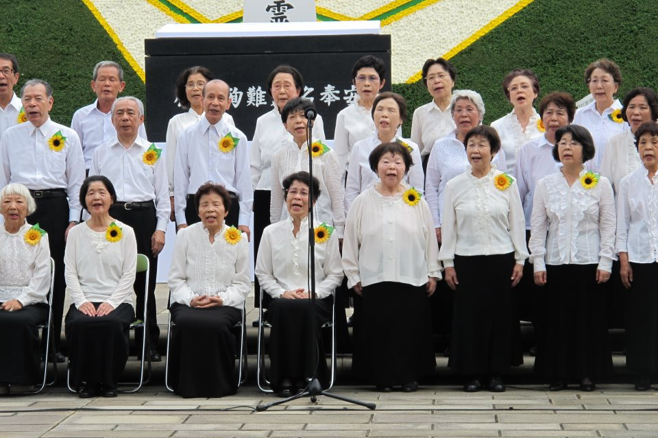 A choir of Hibakusha (atomic bomb survivors) sing "Never Again" Do you remember Hiroshima and Nagasaki? Do you remember life and love both burning out? Don't make anymore of us hibakusha Don't ever repeat that horrible day Can you hear the voice from every nation Can you hear them calling peace? Don't make any more of us hibakusha No one in the world should suffer this again. Photo by CTBTO